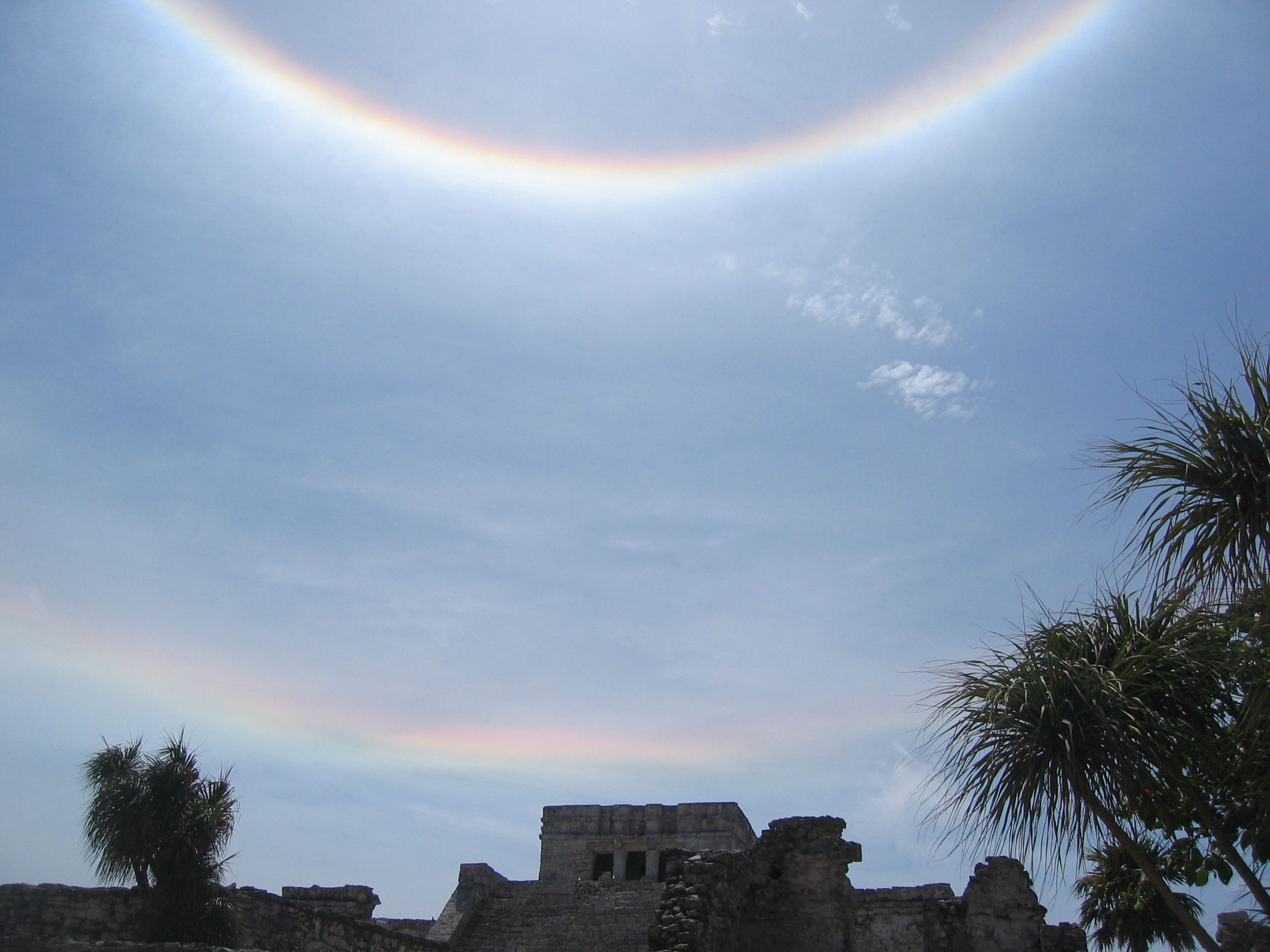 Halos in Mexico 2008 The topmost halo is the superimposition of a faint circular 22° Halo with a bright oval Circumscribed halo (or Lower tangent arc). The lower arc is an Infralateral- or Circumhorizon arc.